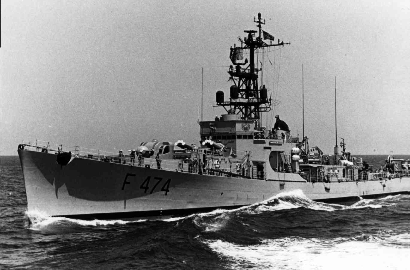 The Portugese frigate Almirante Magalhães Correia (F474) underway.